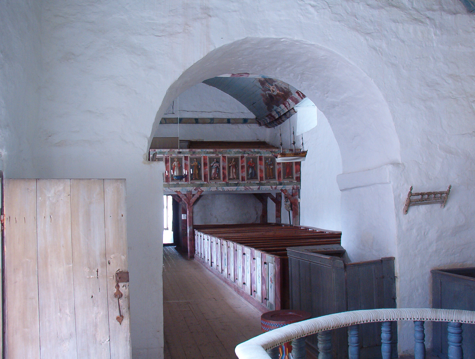 Bokenäs old church in Uddevalla municipality, Bohuslän, the Diocese of Göteborg, Västra Götaland county, Sweden.